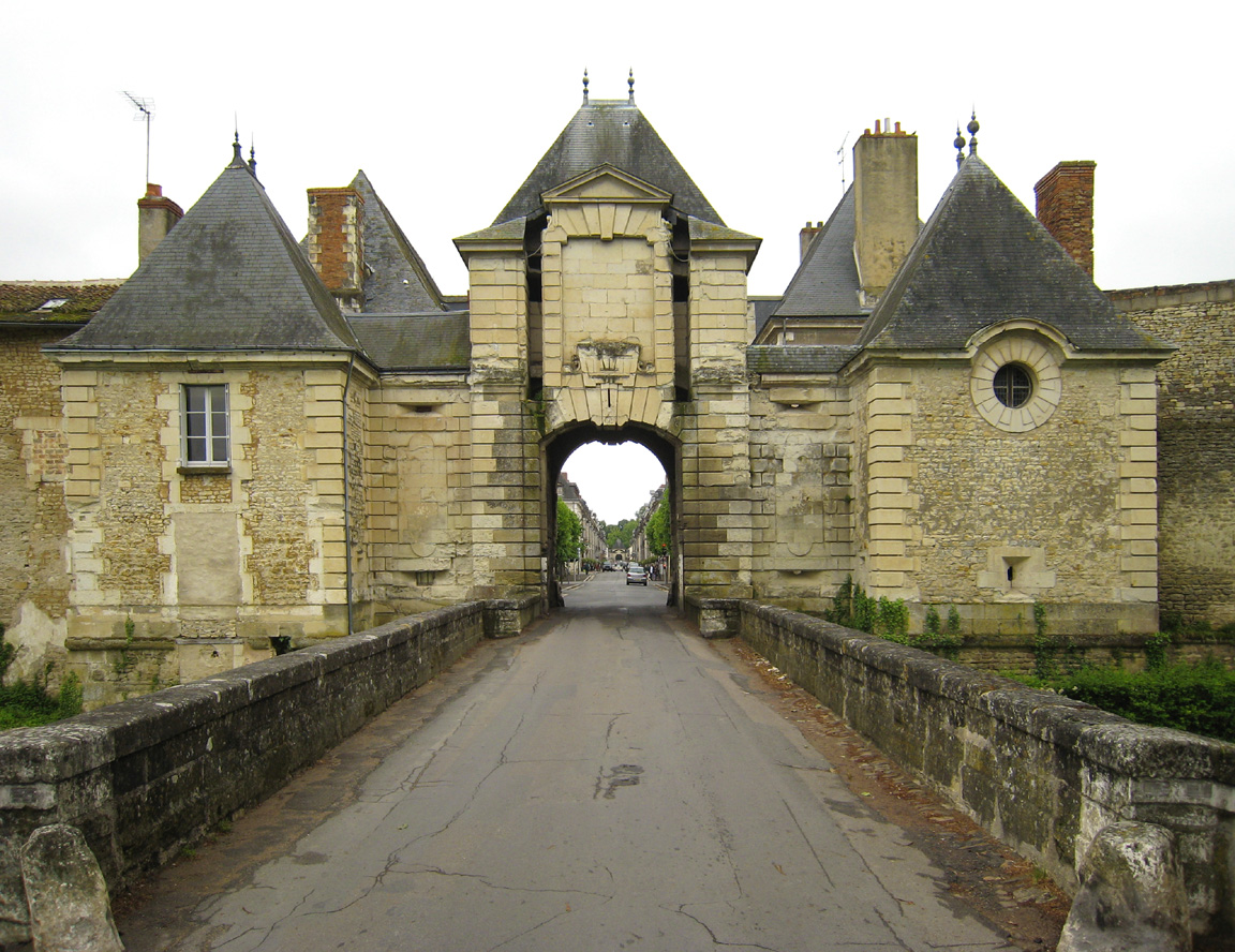 Richelieu, old town in France, town gate